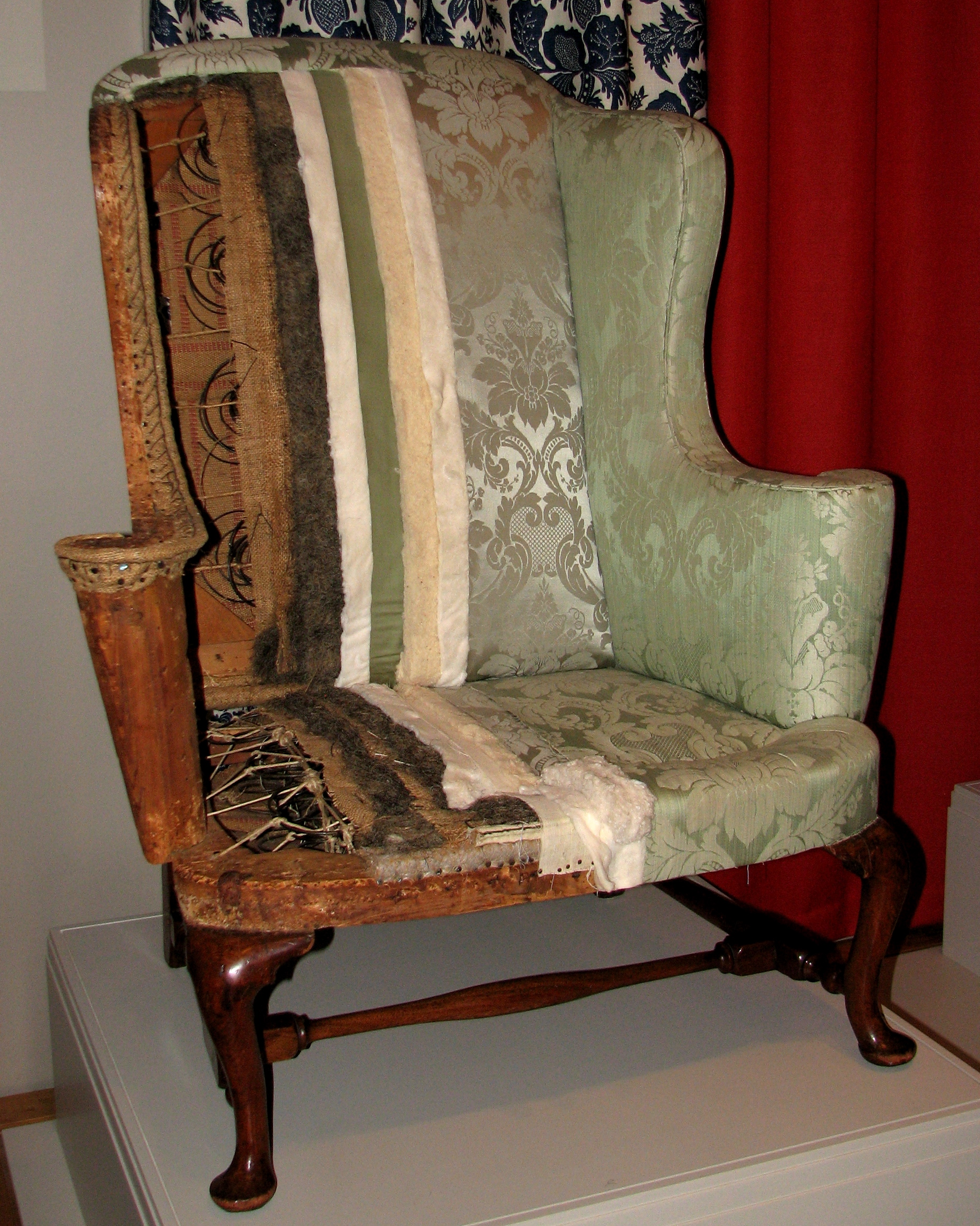 A New England easy chair at the Winterthur Museum and Estate in Delaware. According to a nearby plaque, this chair "had lost its original foundation materials by the time it was re-upholstered in the mid-twentieth century. In order to compare a twentieth-century upholstered shape with an original eighteenth-century shape, our conservators exposed half the frame."